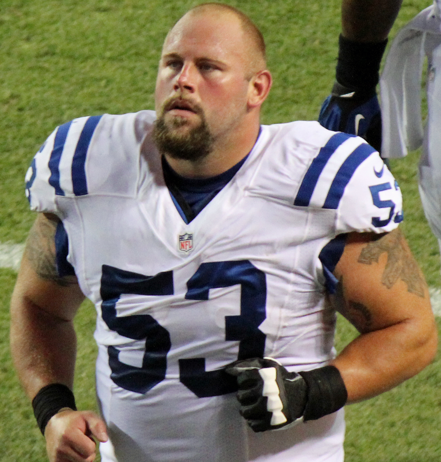 A.Q. Shipley, a player on the National Football League.